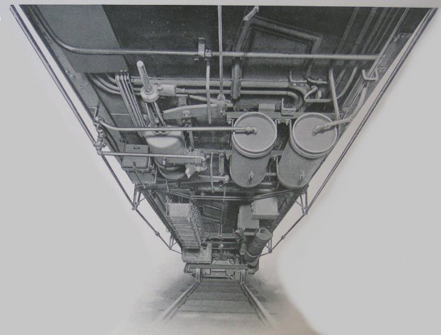 Drawing of the undercar equipment of a Composite IRT subway car